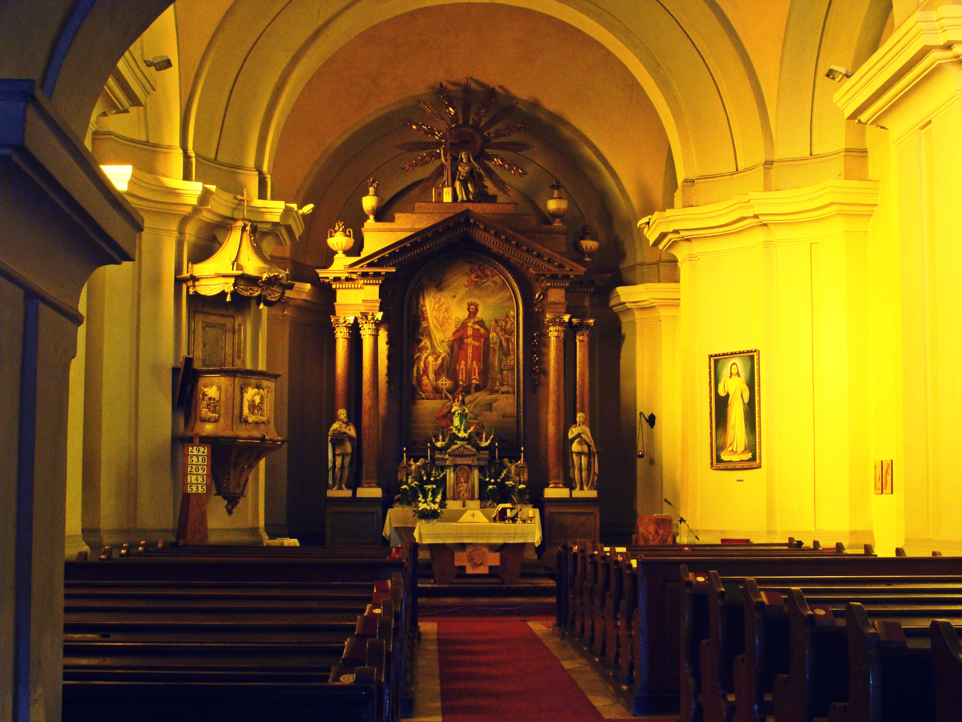 A szobi Római Katolikus Templomban készült kép, mely a főhajót és az oltárt ábrázolja.